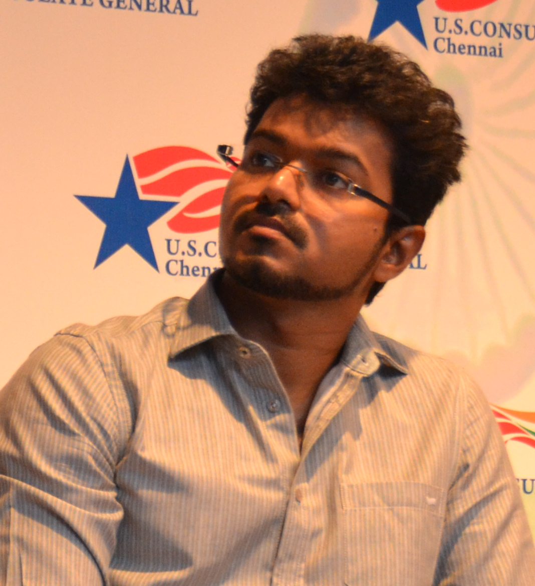 Tamil Film actor Vijay Celebrating World Environment Day at the U.S. Consulate Chennai